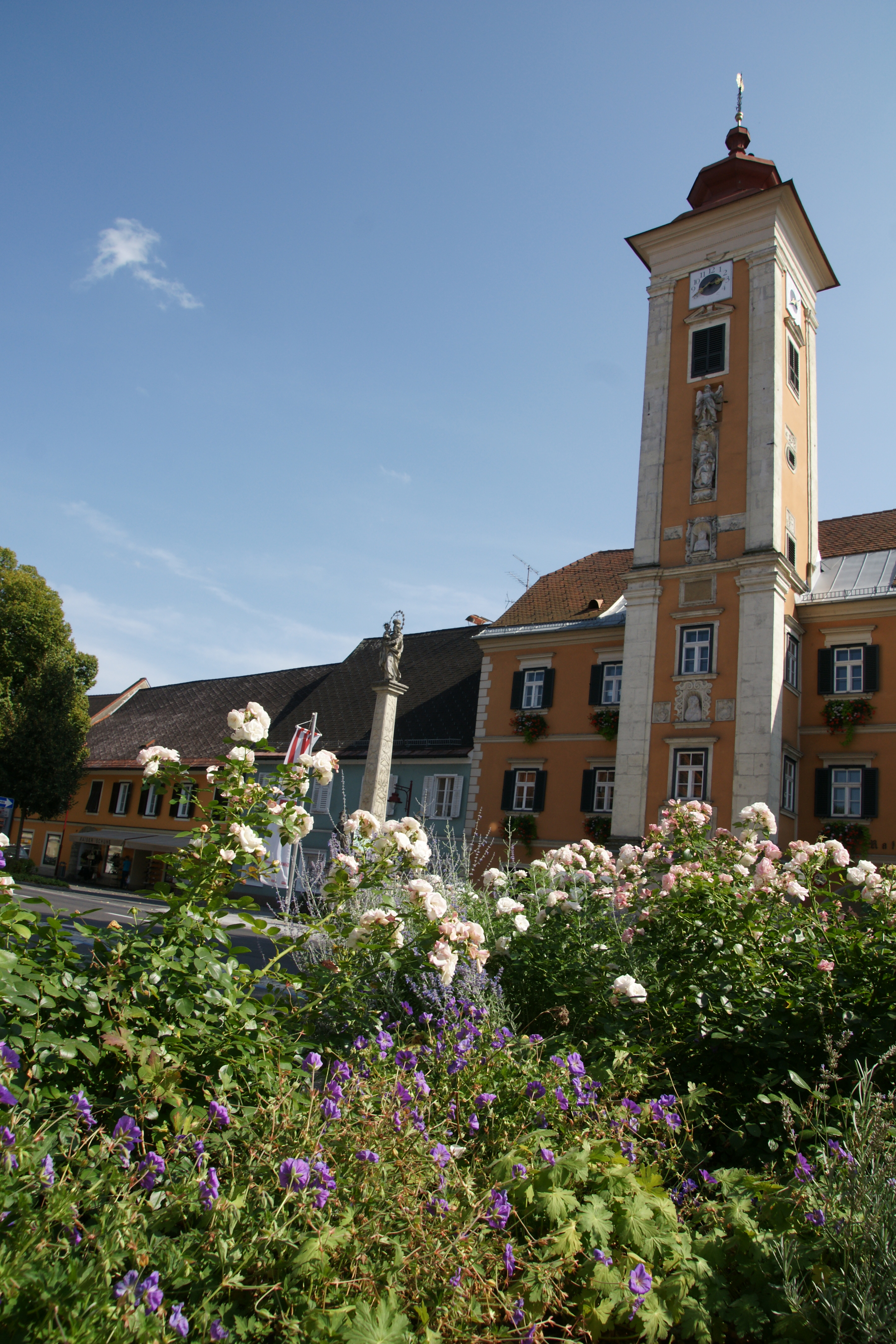 City Hall of Mureck/Styria